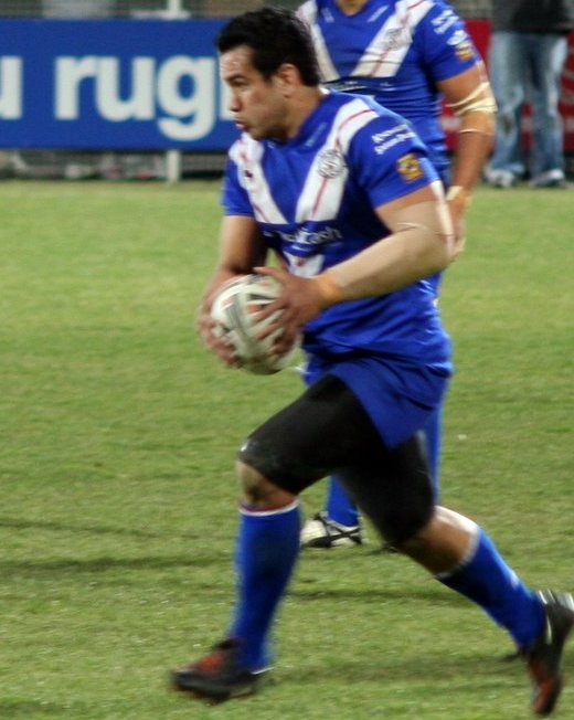 Maurie Fa'asavalu